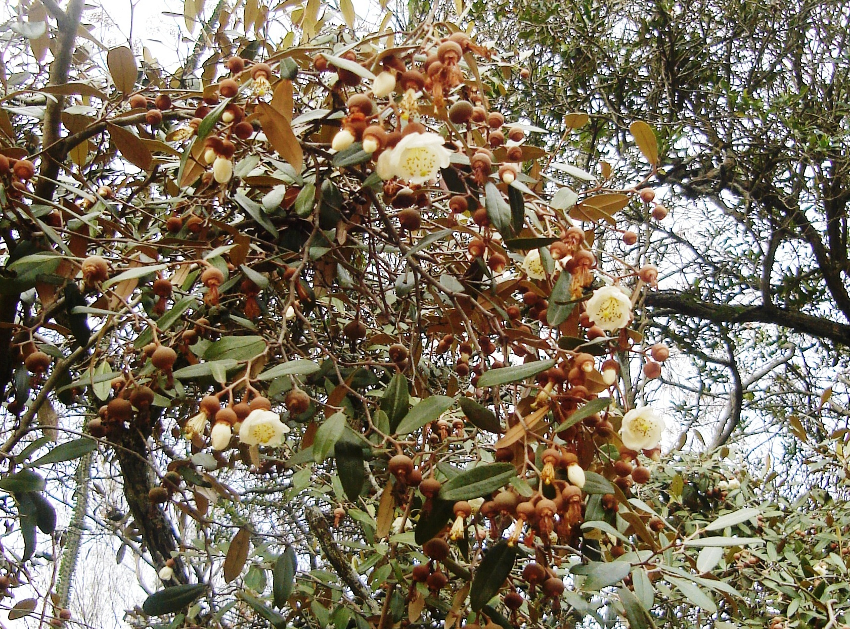 Sarcolaena oblongifolia (Detail), Tsimbazaza Botanical Garden, Antananarivo, Madagascar